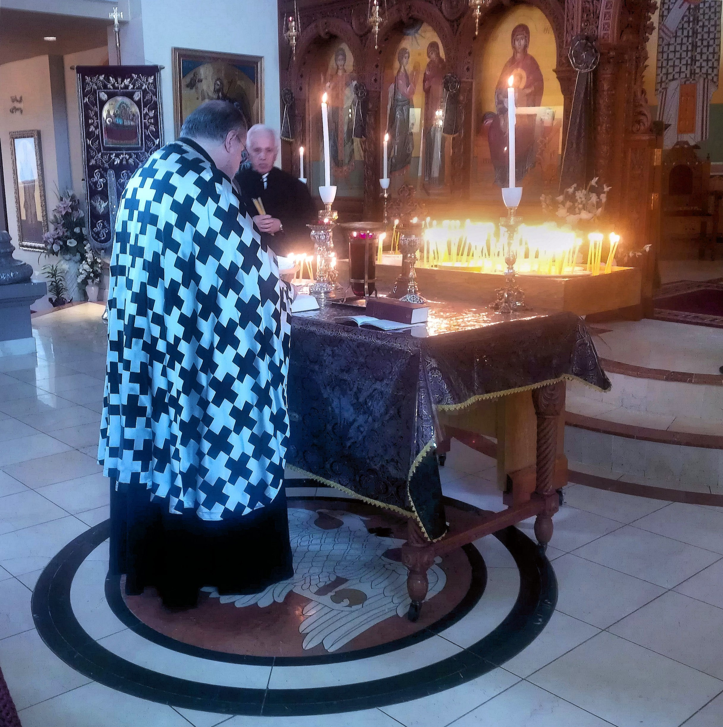 Service of the Sacrament of Holy Unction (Anointing of the Sick), during Great and Holy Wednesday. The Holy Oil (Chrism) is blessed by the Holy Spirit, and is used for anointing the faithful for the healing of infirmities of the soul and body. In the Greek Orthodox Church all members of the church receive Holy Unction on Holy Wednesday evening Annunciation of the Virgin Mary Greek Orthodox Cathedral, Toronto, Ontario, Canada.